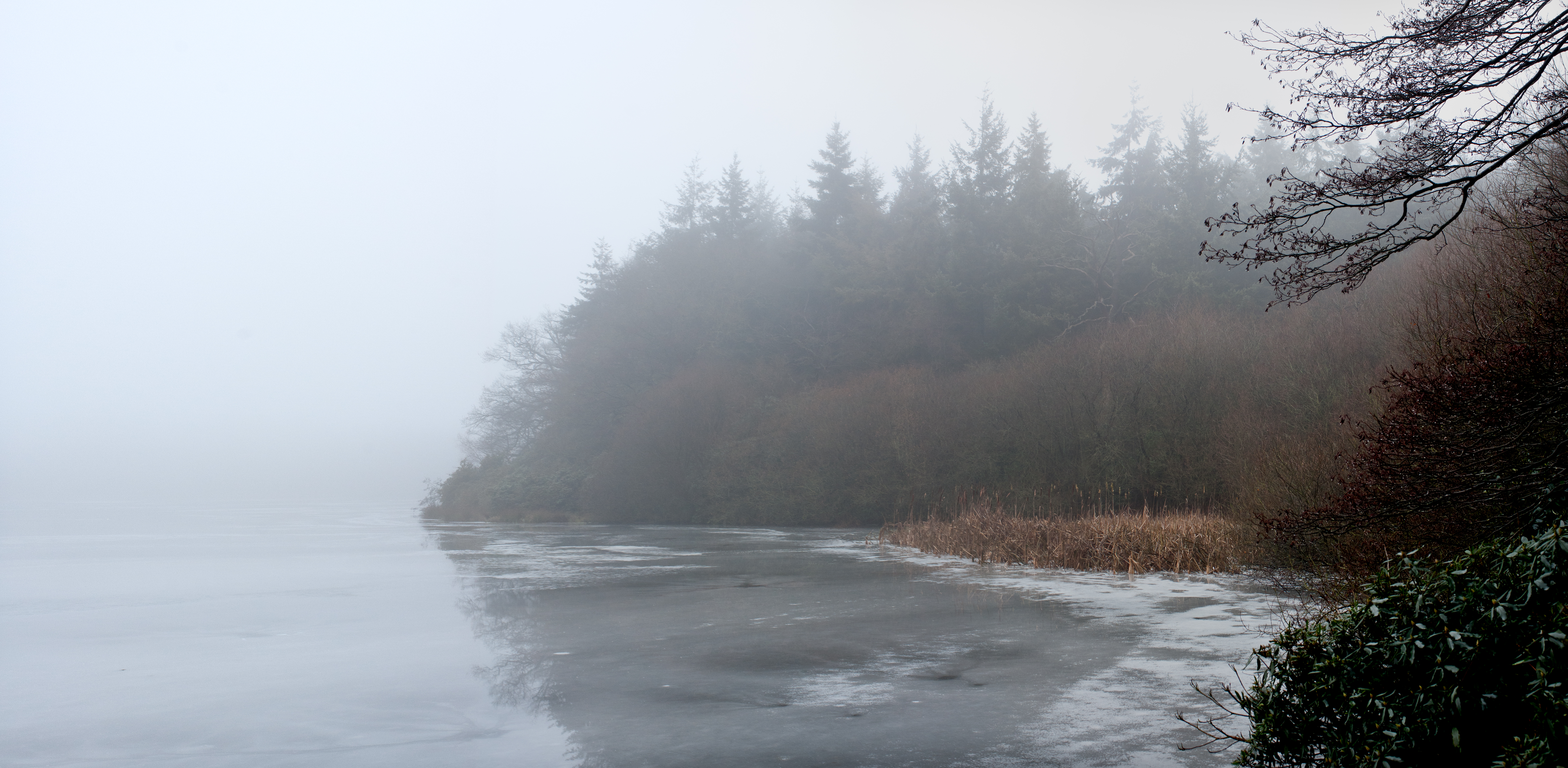 A view of White Sitch Lake/Pond, frozen in winter.